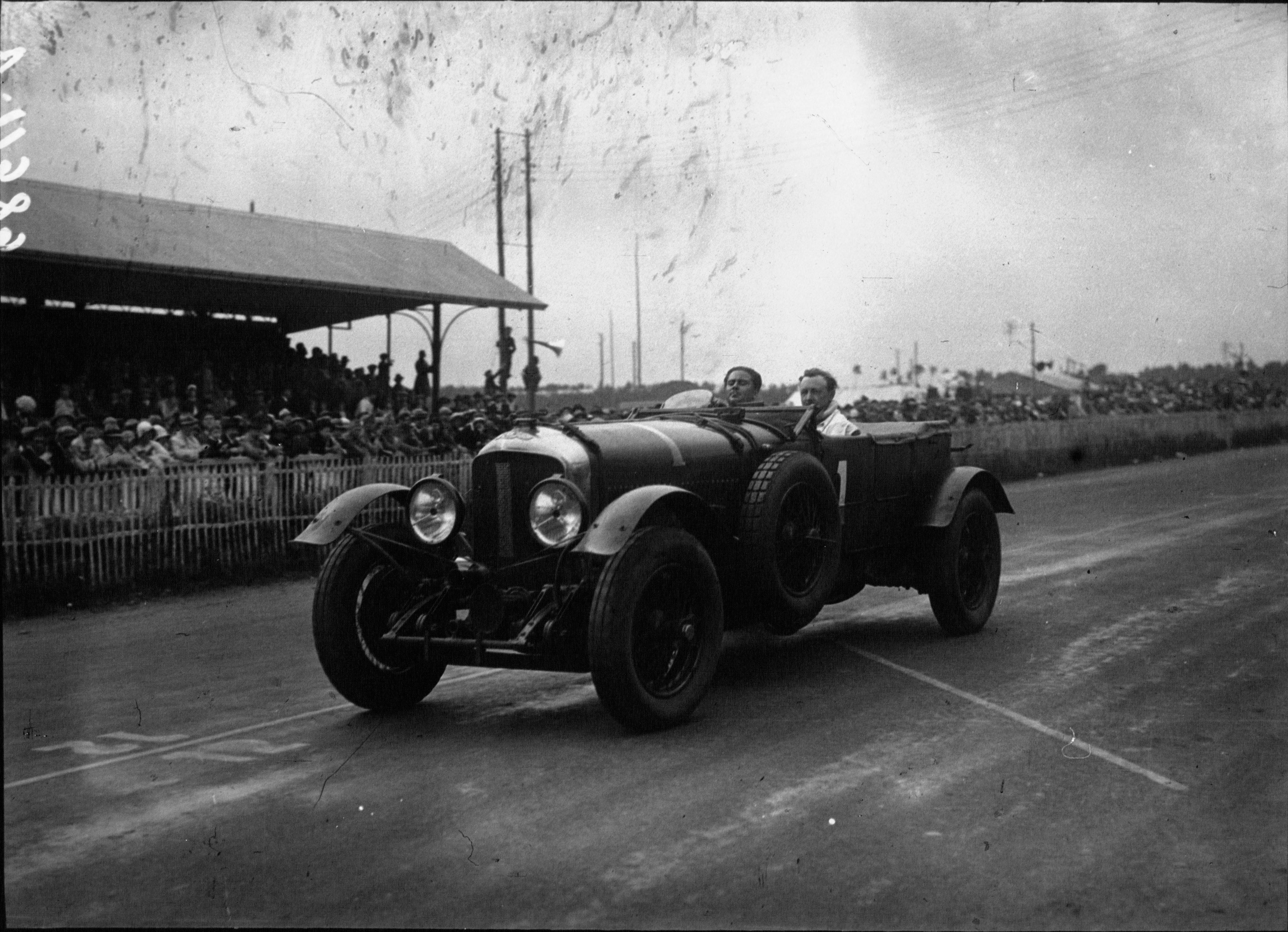 Bentley #1 of Barnato and Birkin at the 1929 24 Hours of Le Mans.